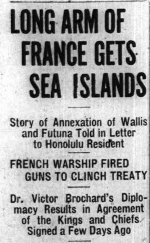 Title of an Honolulu Star Bulletin article published on July 16th, 1913 about the annexation of Wallis and Futuna Islands by France.